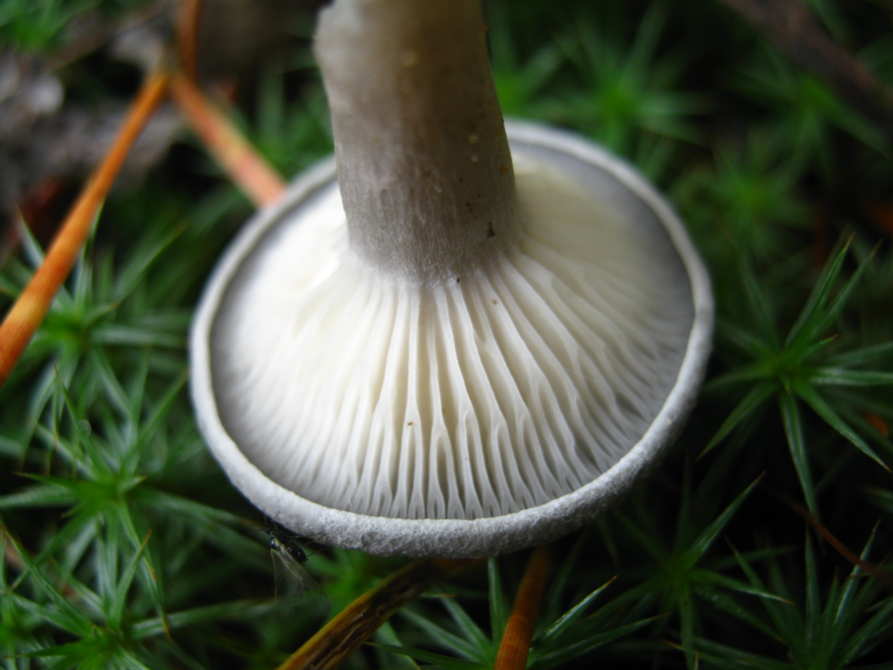 Cantharellula umbonata (Fr.) Singer Location: Forest near Elgin Street, Pembroke, Ontario, Canada Observation Notes: Found in Zone 15; first time I’ve seen these there this year. For more information about this, see the observation page at Mushroom Observer.